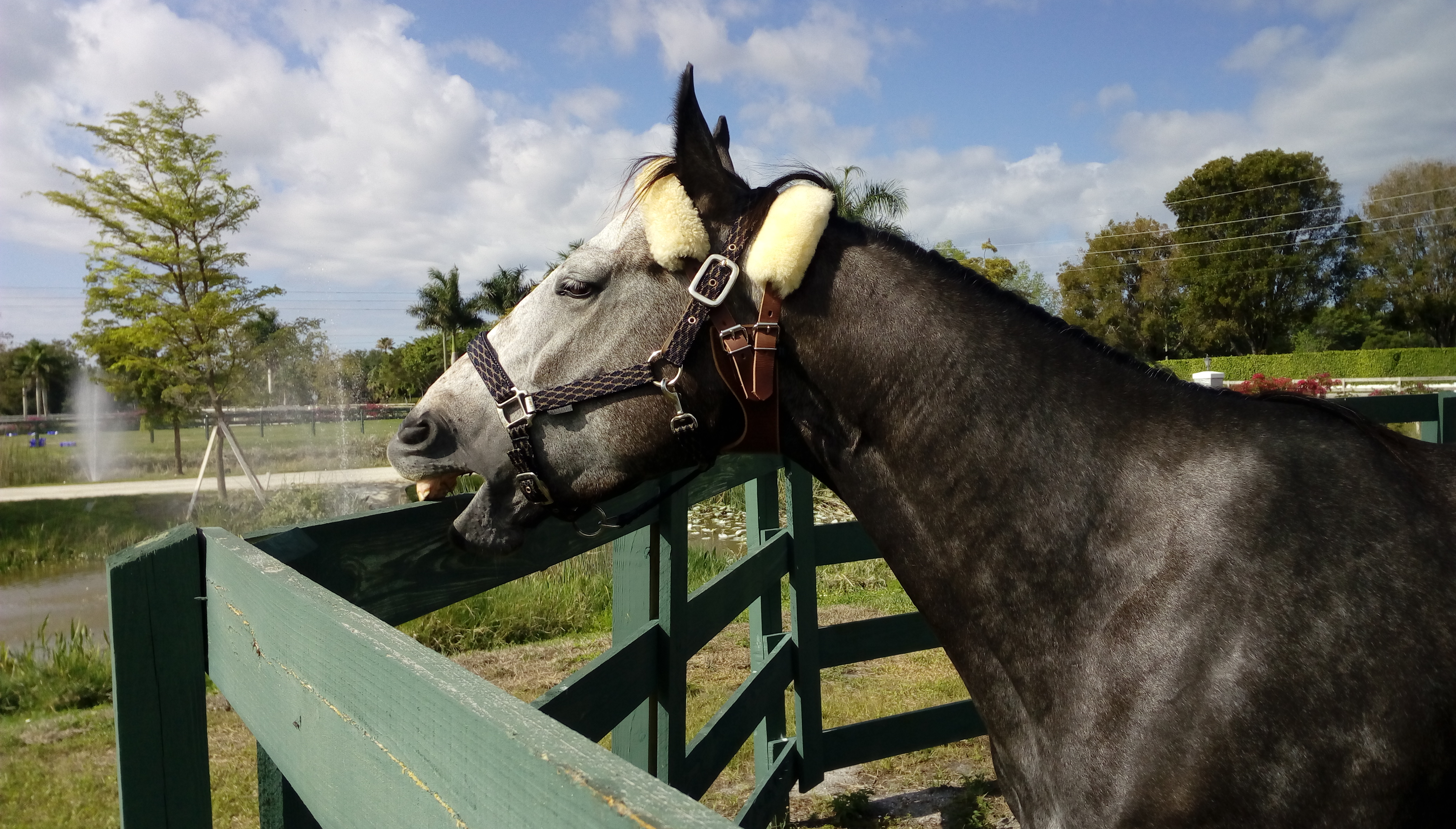 The cribbing colar should prevent the horse from swallowing air.